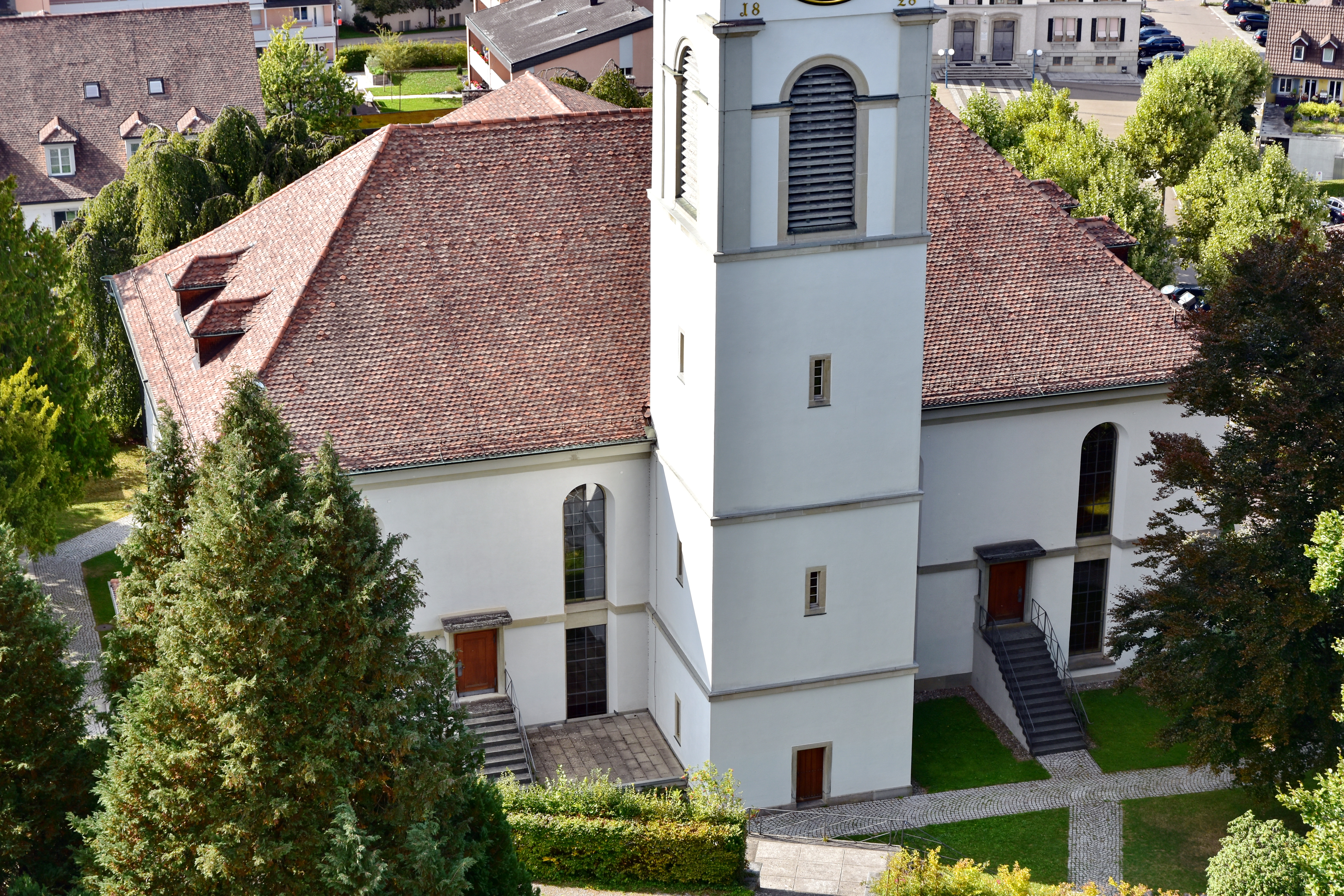 Reformierte Kirche as seen from the tower of the Castle (Schloss) in Uster